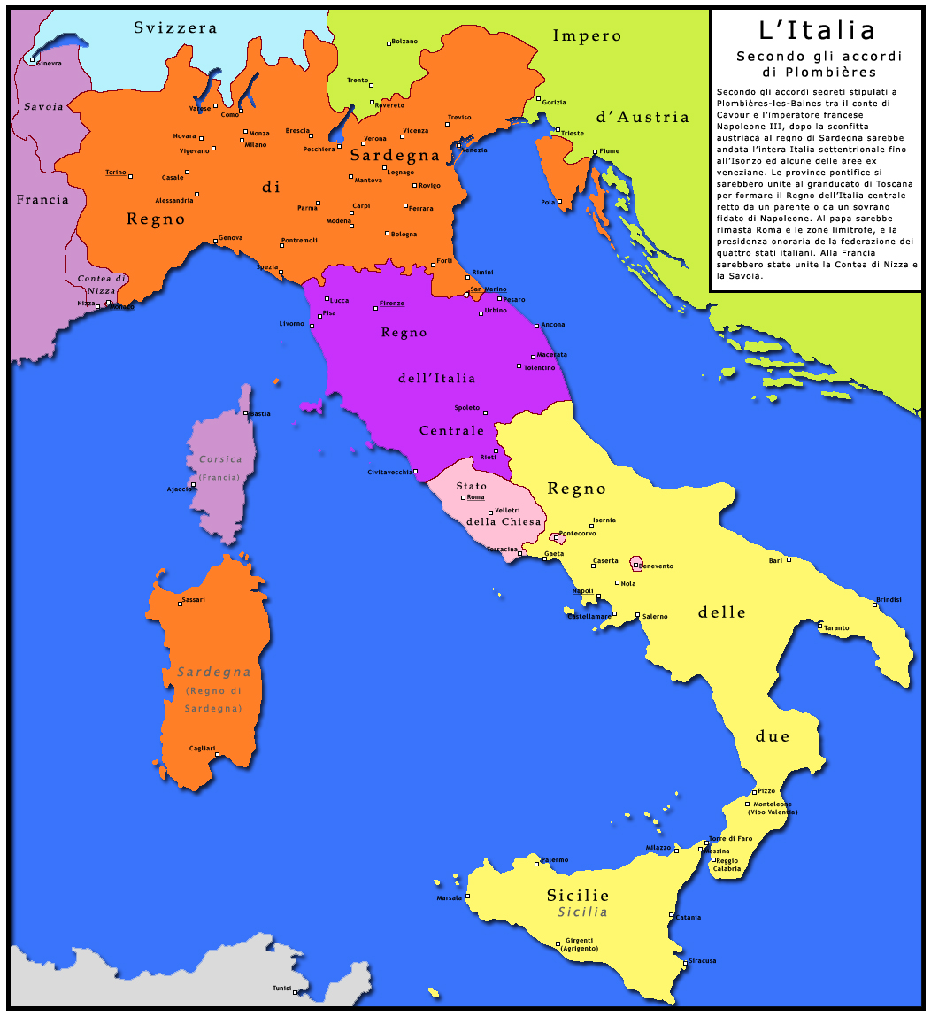 Political situation of Italy according to Plombières pact between Sardinian prime minister Camillo Benso count of Cavour and French emperor Napoleon III